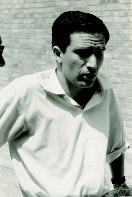 Alberto Tognoli, Urbino 1967